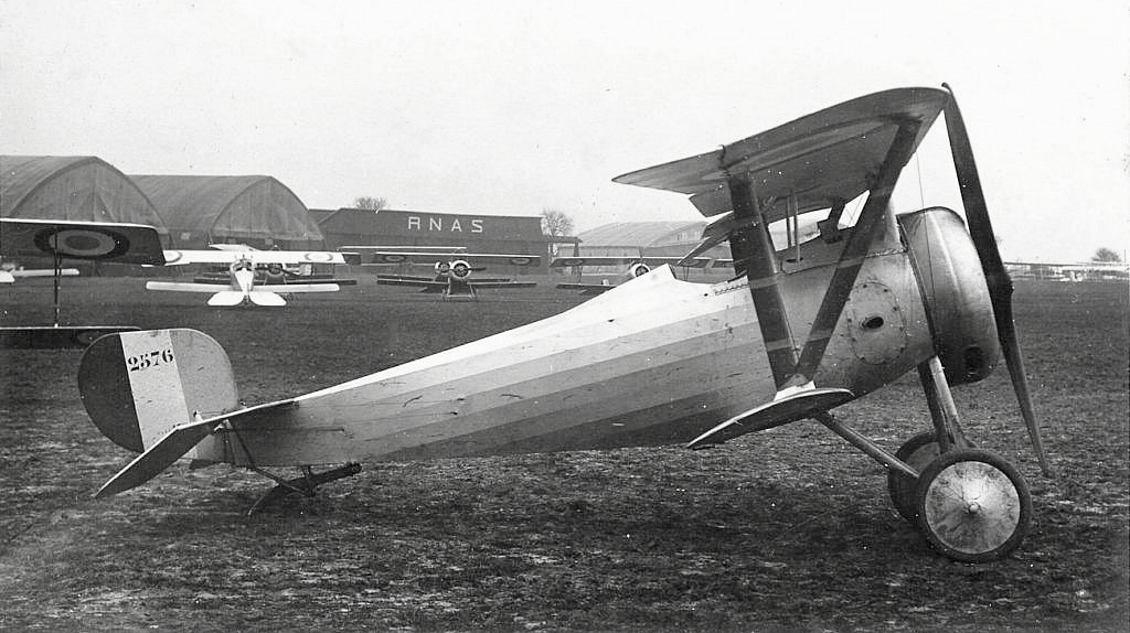 Nieuport 17bis in French markings, right side